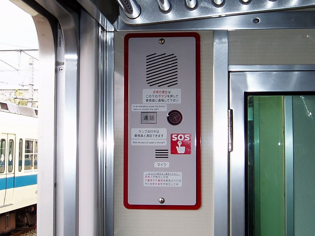 Emergency report equipment currently installed in the renewal vehicle of the Odakyu 8000 type.